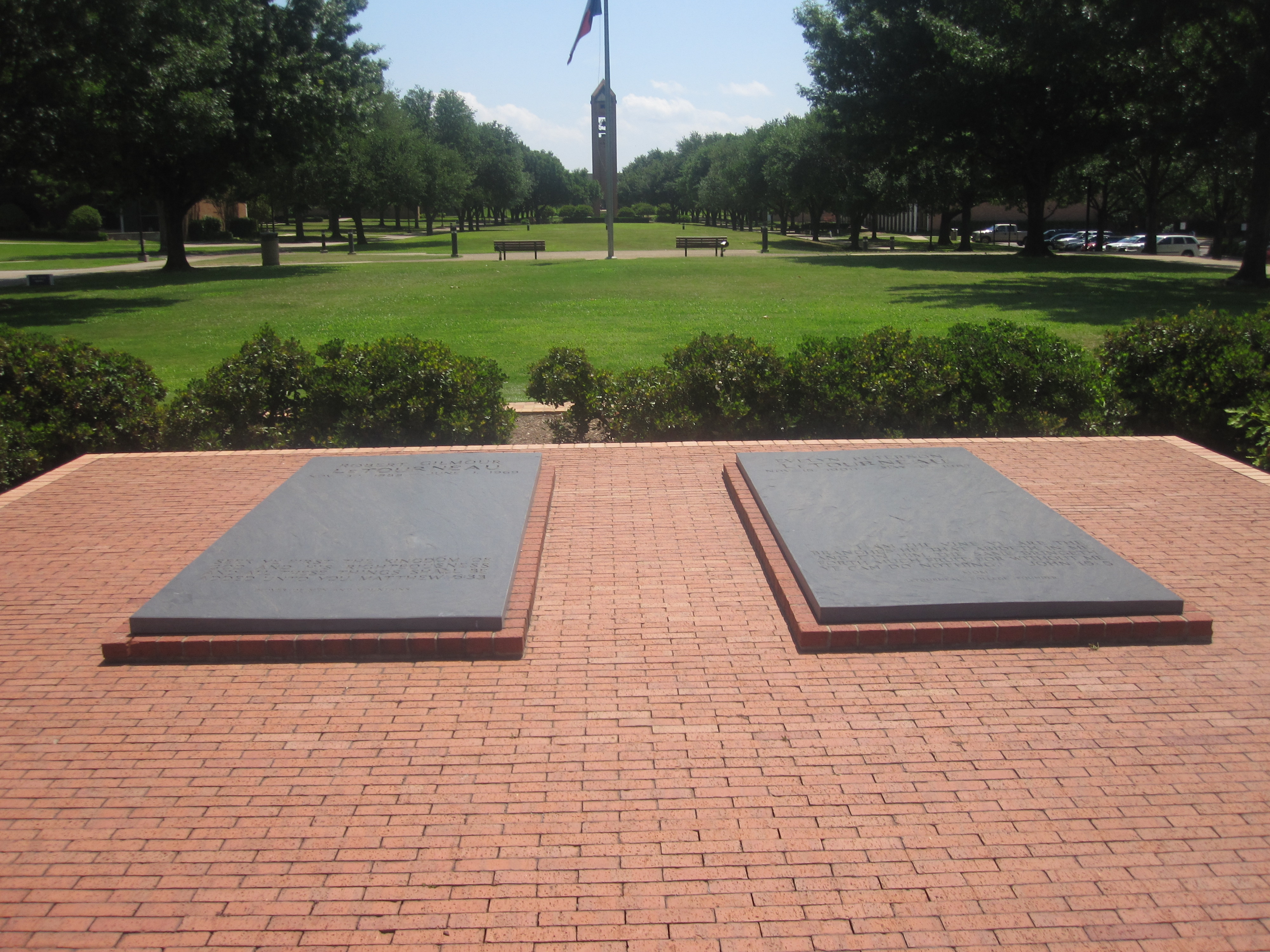 I took photo with Canon camera at LeTourneau University in Longview, TX.